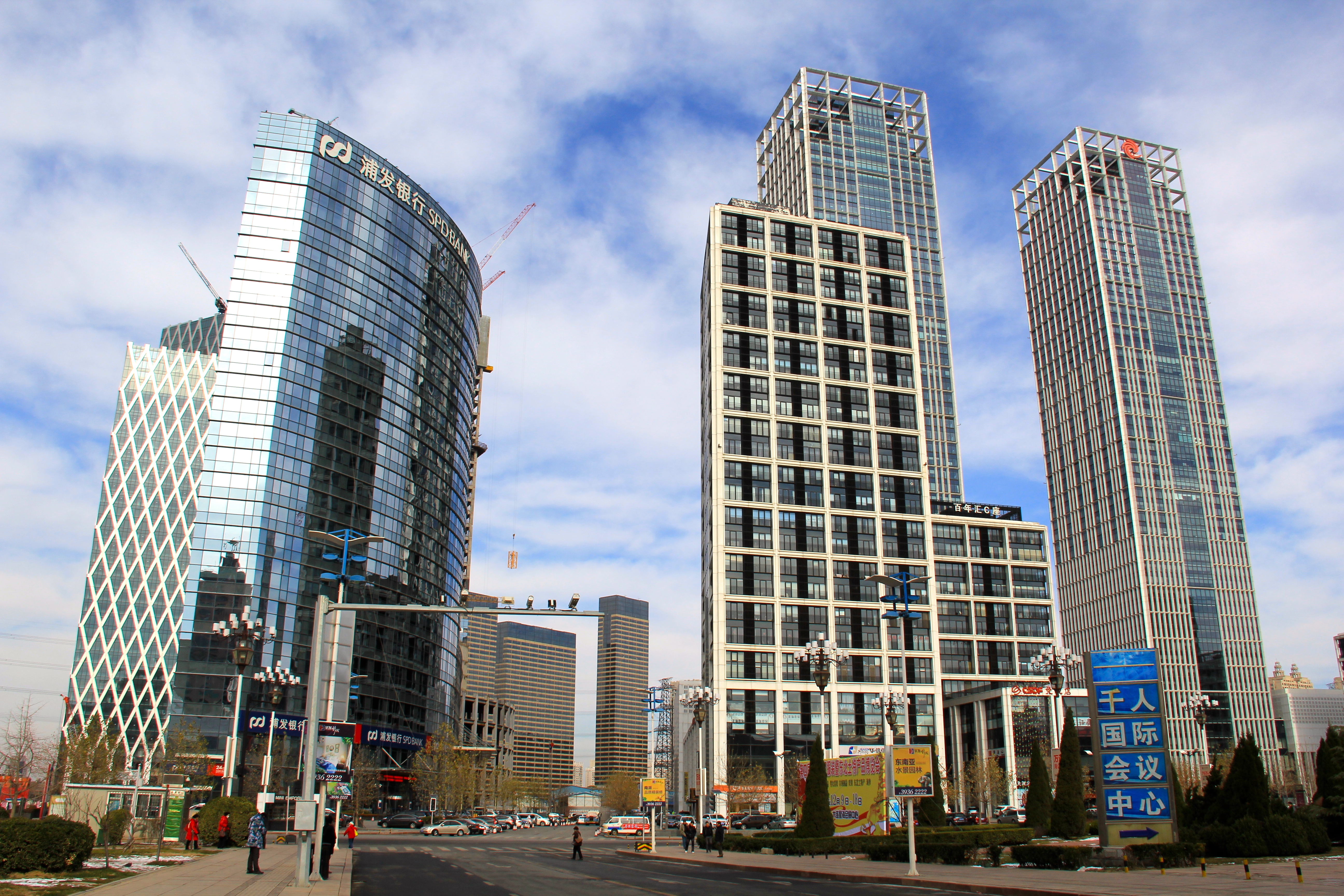 Xinghai CBD, Dalian, China